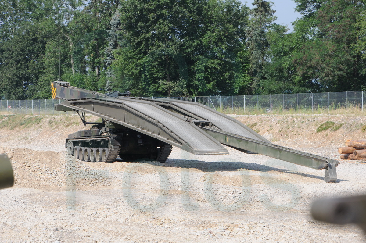 6. IMFT in Full-Reuenthal